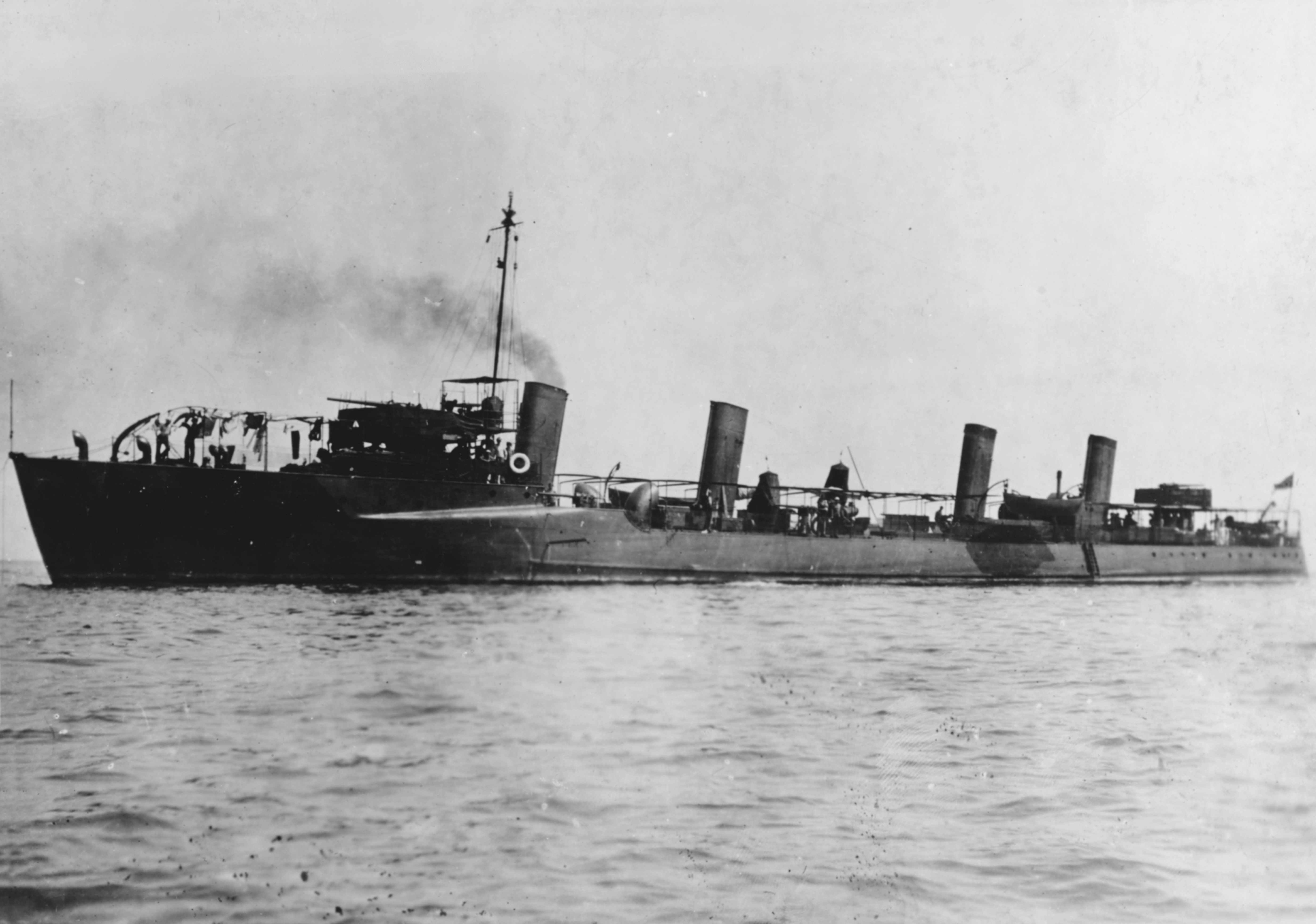 The U.S. Navy destroyer USS Chauncey (DD-3) photographed prior to World War I.